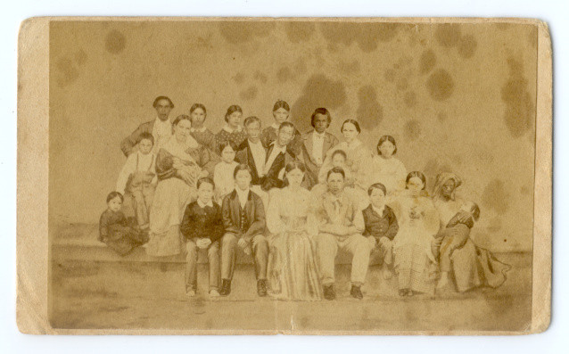 This family portrait from the 1860s shows Chang and Eng Bunker with their wives and 18 of their 22 children. It also includes Grace Gates, one of the 33 slaves on their plantation.